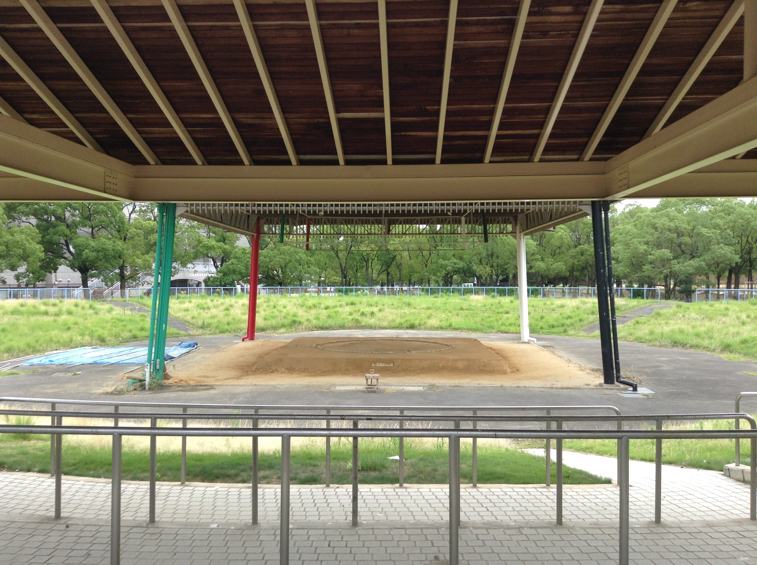 The Sumo wrestling hall in Nagai Park